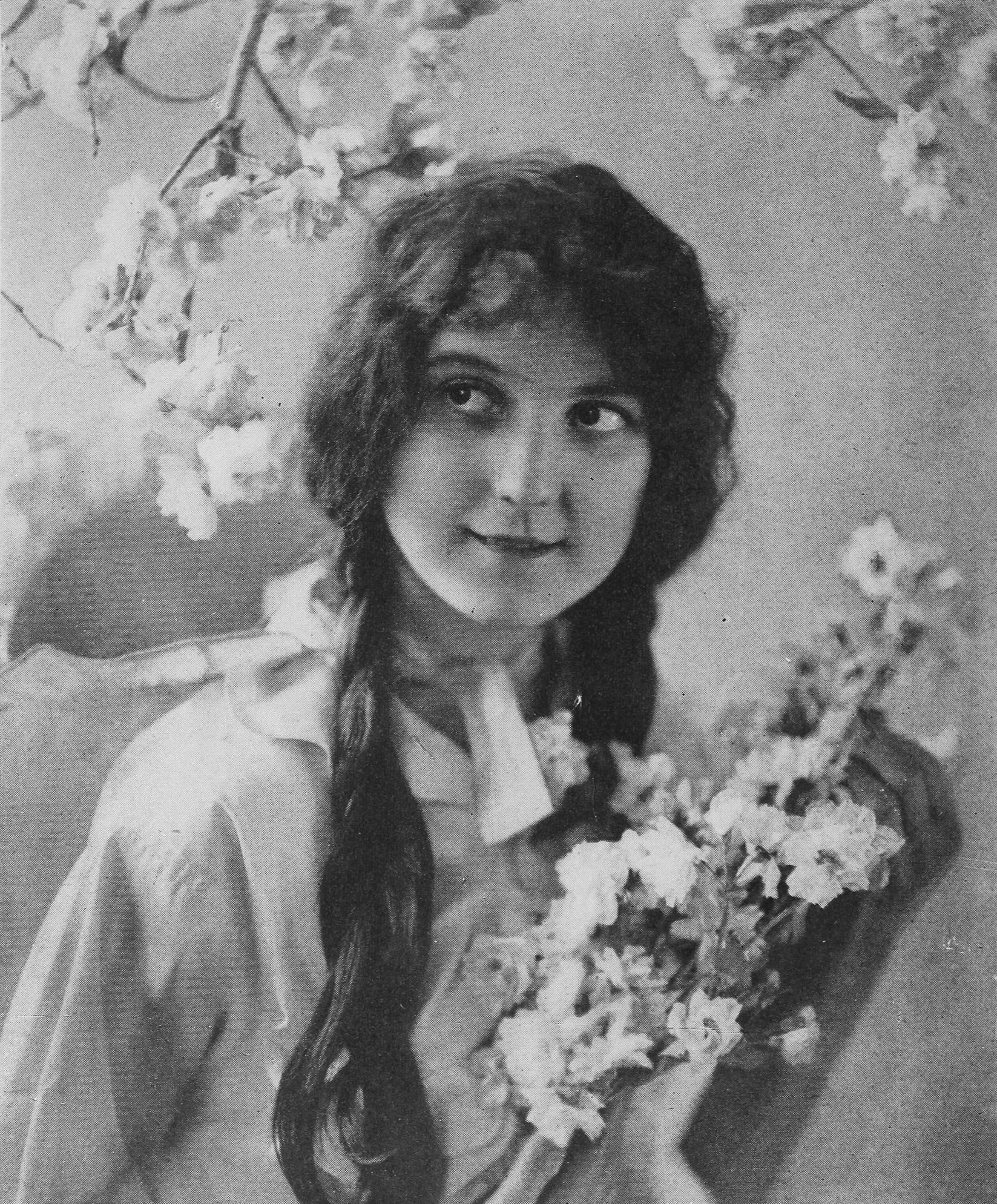 Portrait of Ann Little